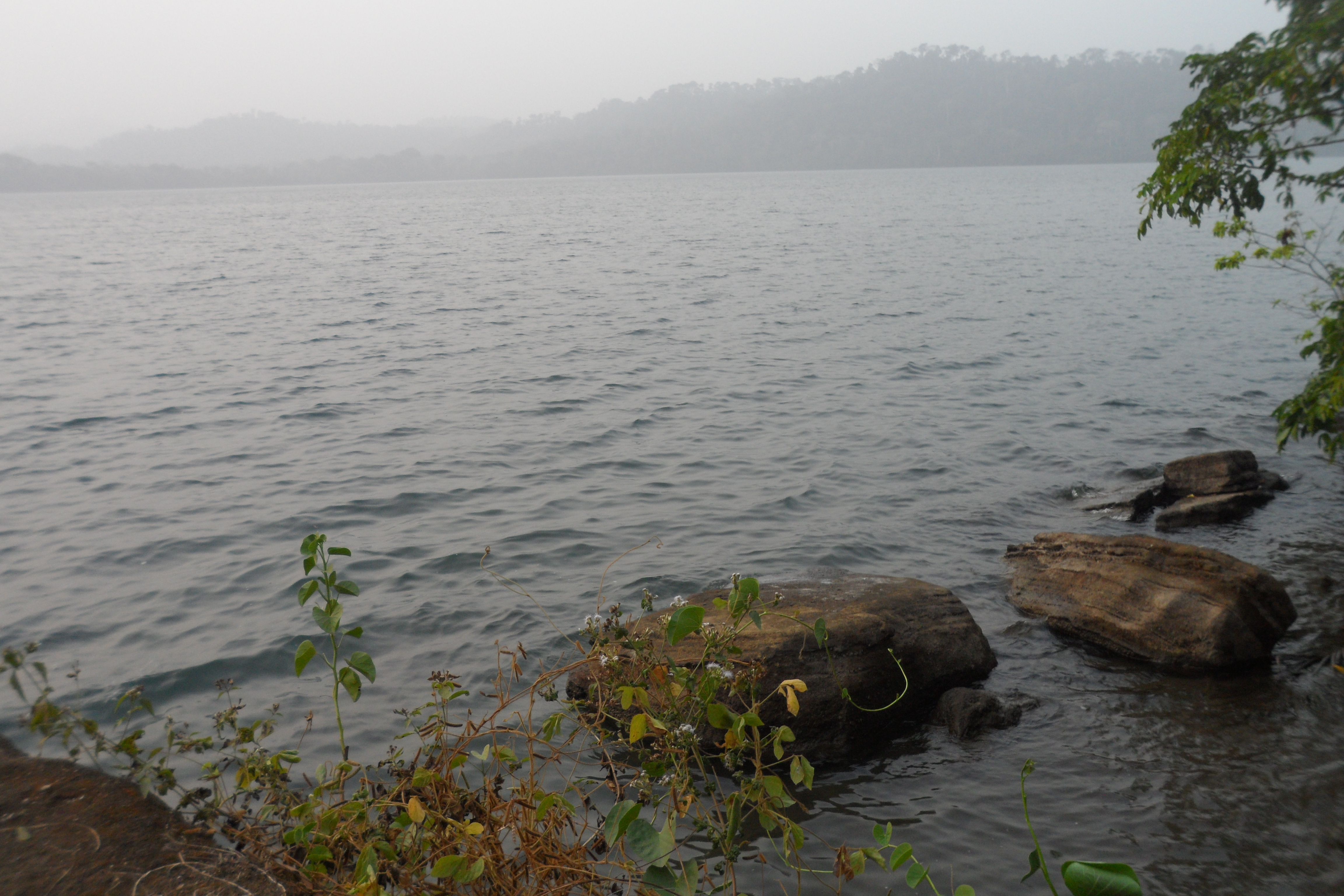 One of the Numerous beautiful scenes in Kumba